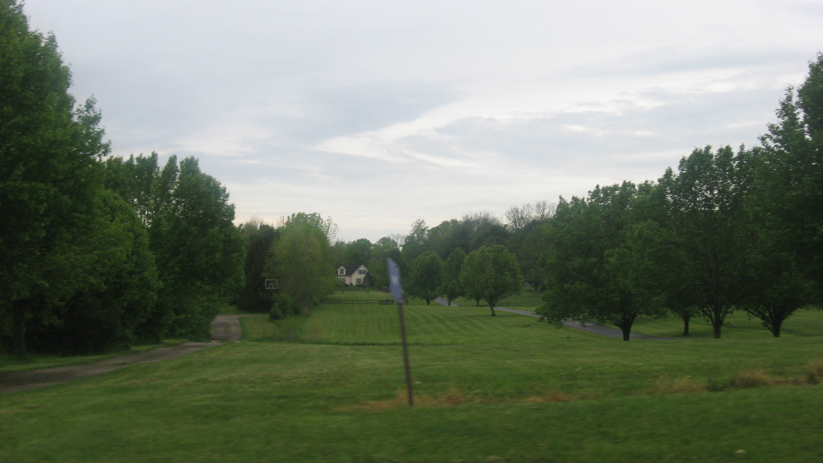 Looking toward the Bone Stone Graves from Red Oak Road northwest of Oregonia in Wayne Township, Warren County, Ohio, United States. As an important archaeological site, the graves are listed on the National Register of Historic Places.